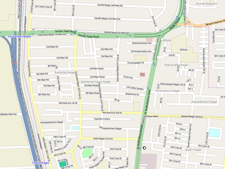 This map may be incomplete, and may contain errors. Don't rely solely on it for navigation.